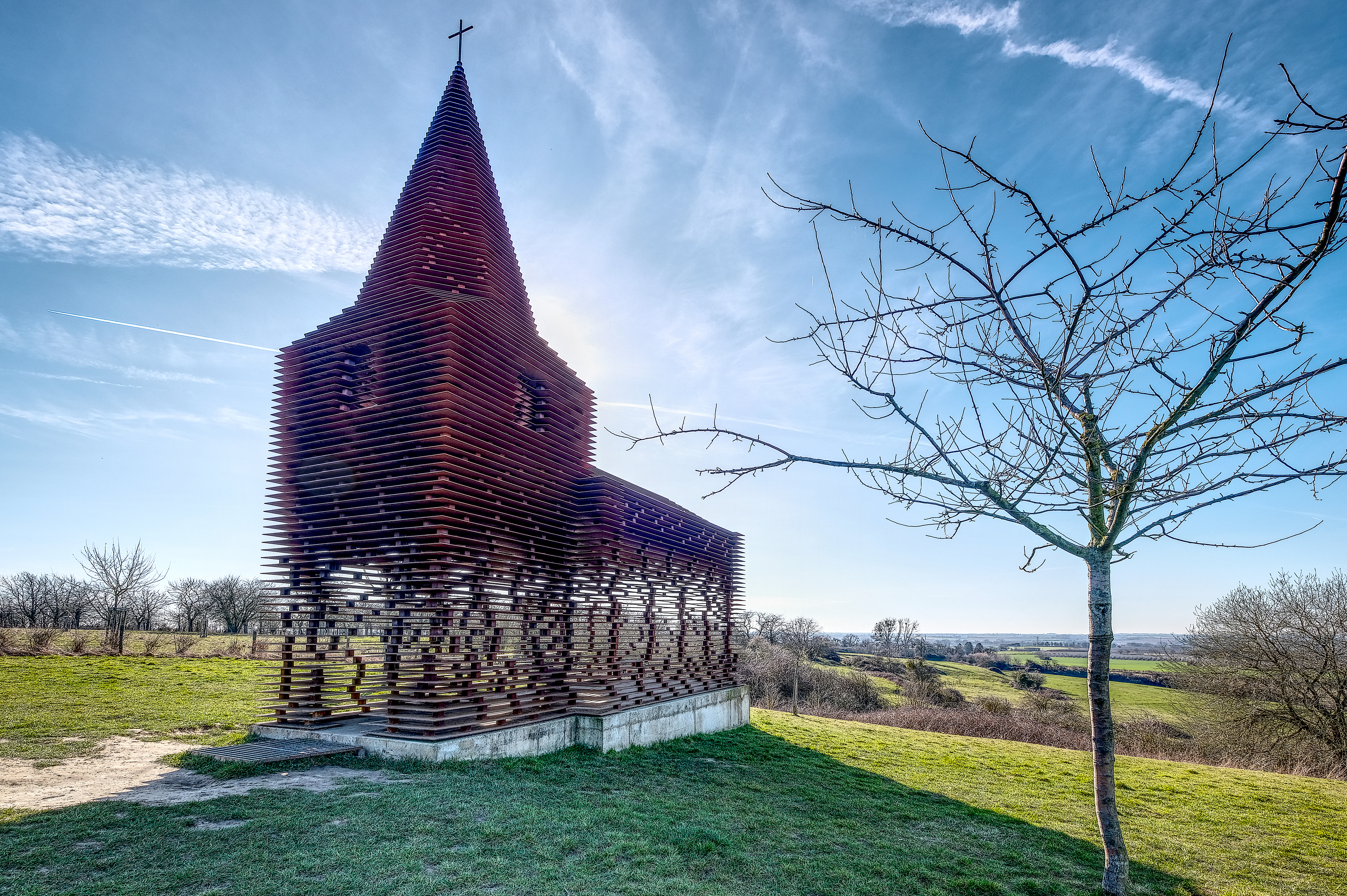 "Reading Between the Lines", a piece of Art, created by architects Gijs and Van Vaerenbergh near Borgloon. Gives a different view from all possible distances and angles. Here the underside disappears into a mesmerizing moiré.